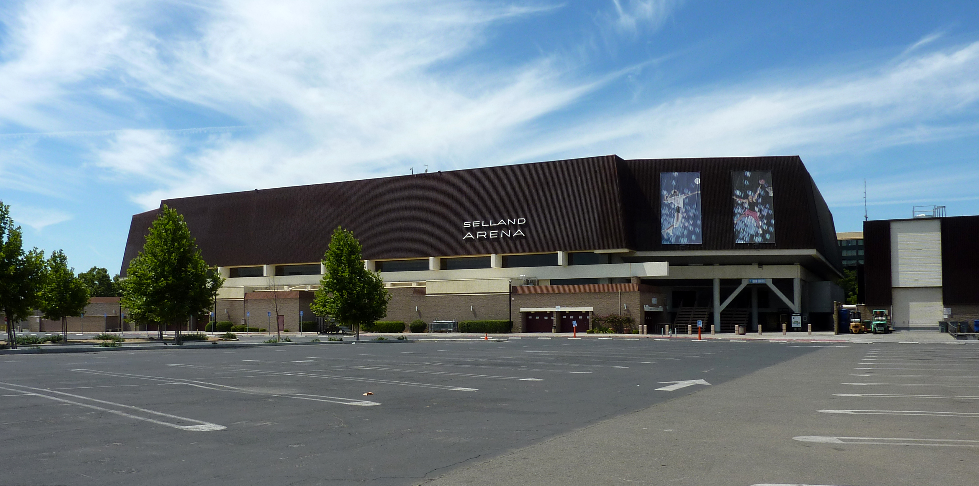 Selland Arena (now Warnors Theatre), Fresno, California, USA.